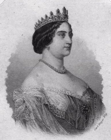 Augusta Caroline Grand Duchess of Mecklenburg-Strelitz, Augusta Caroline of England (1822 - 1916), daughter of the Duke of Cambridge, circa 1863